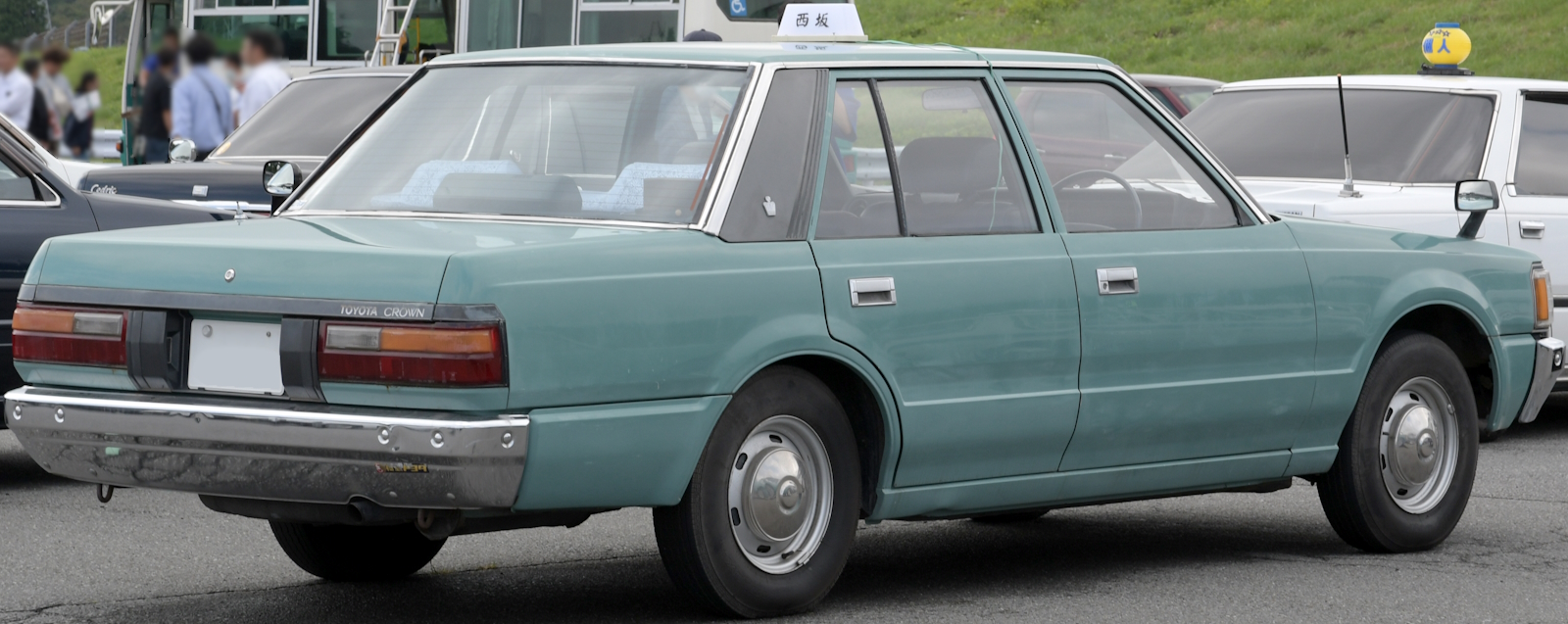 Toyota Crown Standard